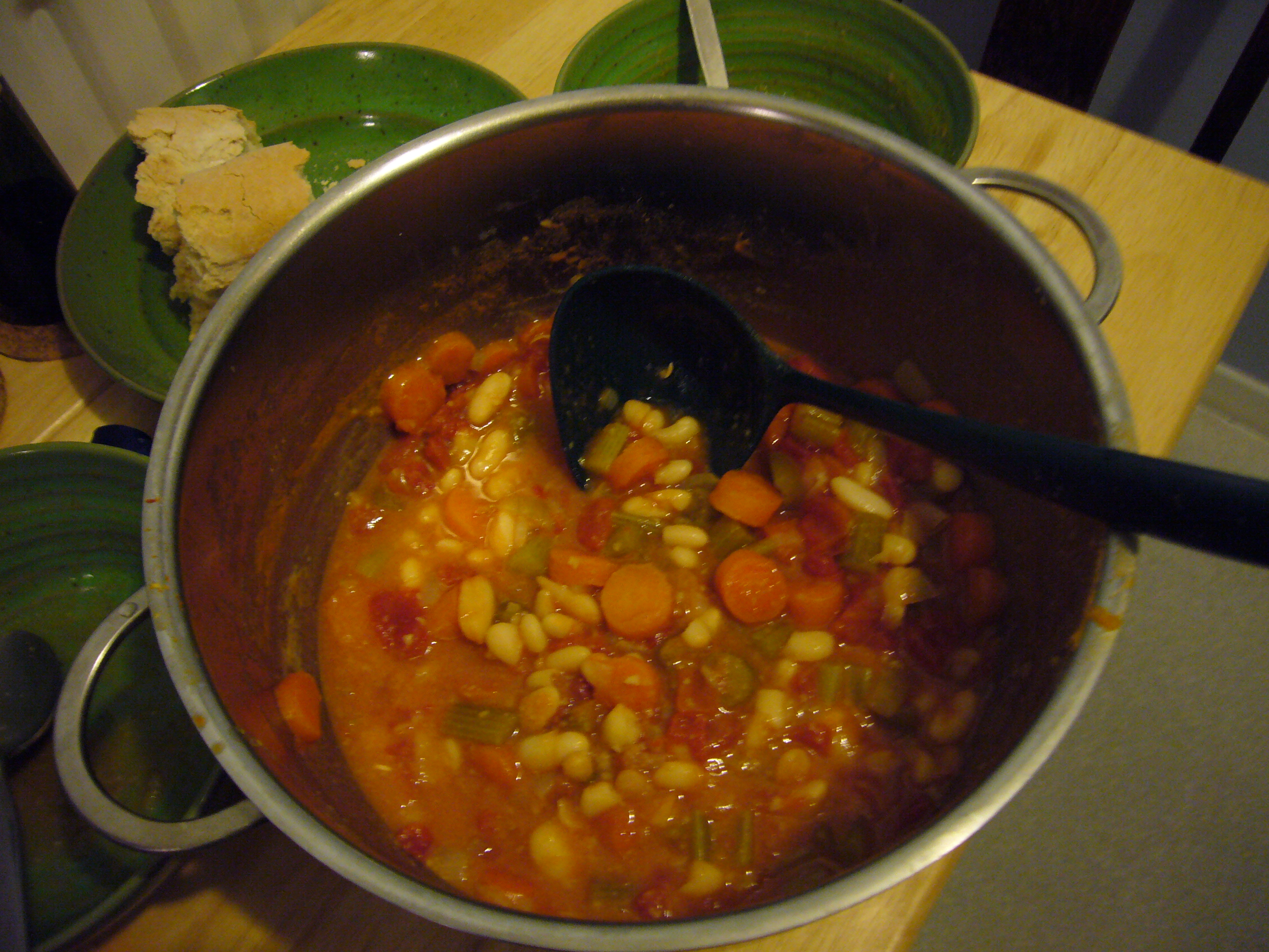 Fassoulada (Greek bean stew)